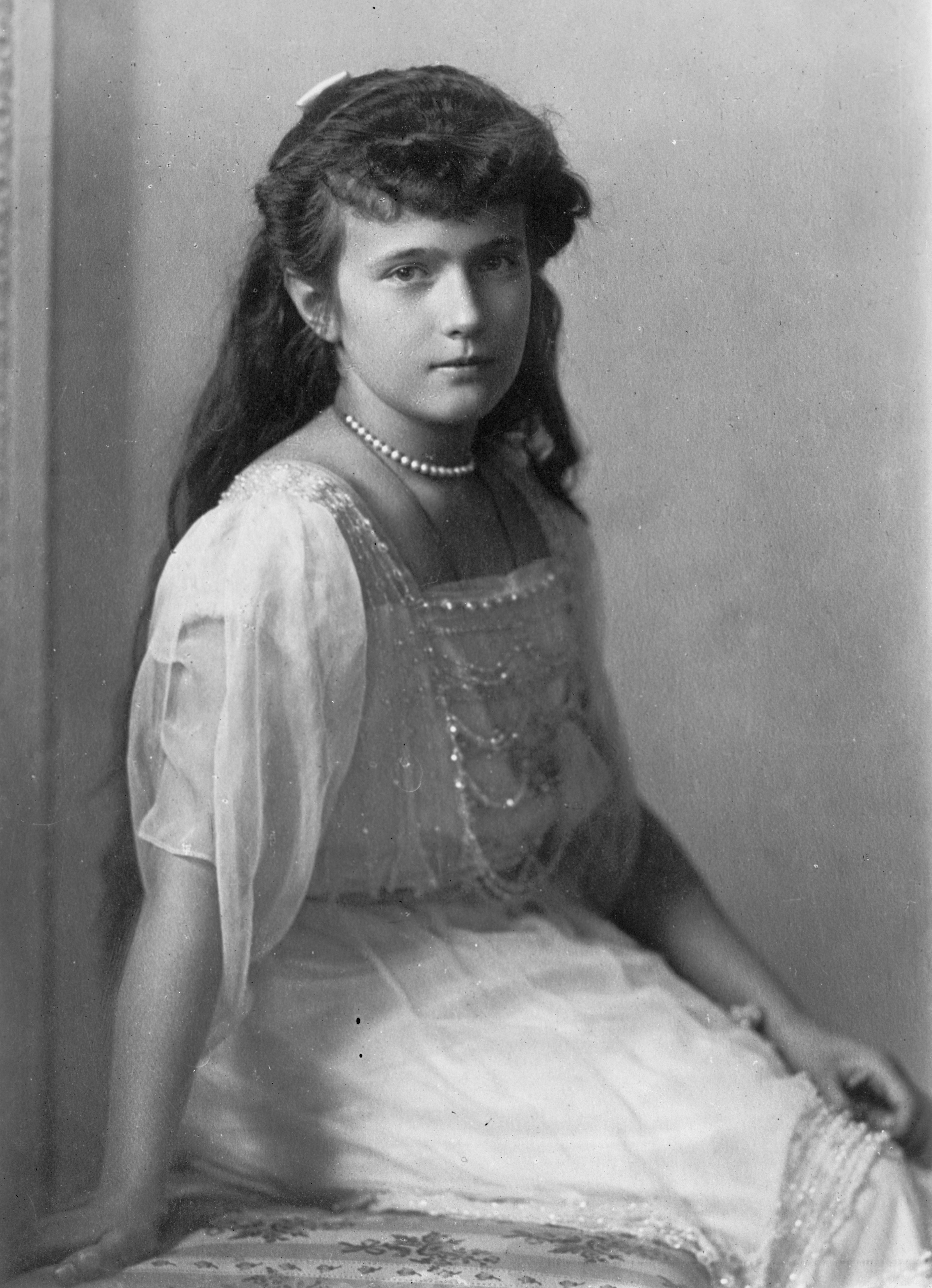 Grand Duchess Anastasia Nikolaevna of Russia